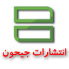 انتشارات جيحون